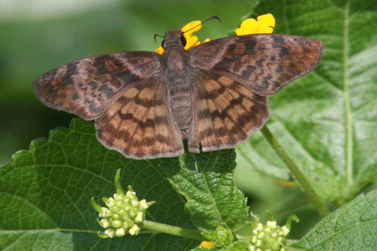 Brown-banded skipper (Timochares ruptifasciata) dorsal